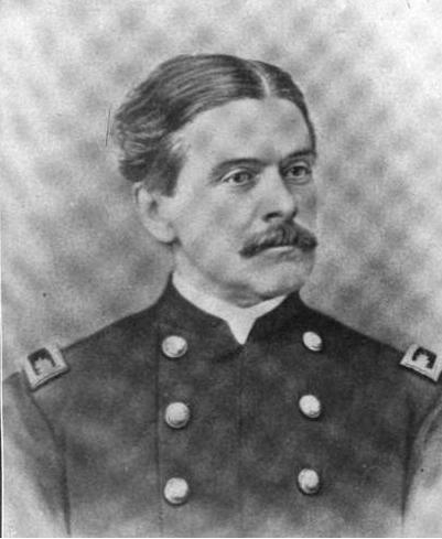 Colonel Justus D. Steinberger from History of the State of Washington by Edmond Stephen Meany and published by Macmillan Co., at New York in 1909 facing page 260.